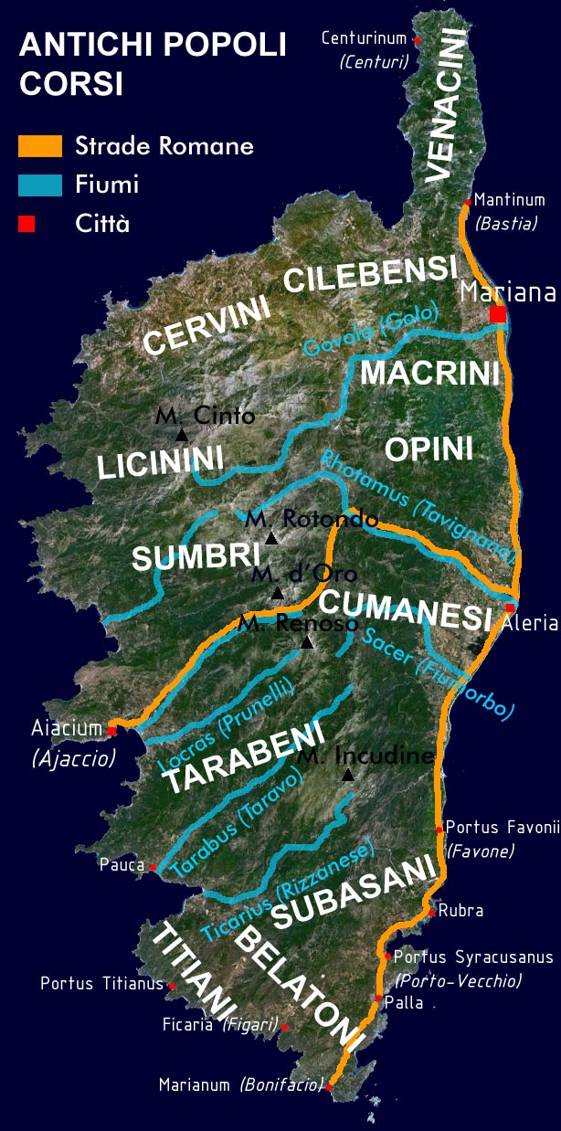 Simplified Map of Corsica, indicating the geographic distribution of the ancient Corsican Tribes, the main cities and roads in the Roman age. Created by myself based on a satellite image acquired through NASA World Wind 1.3.